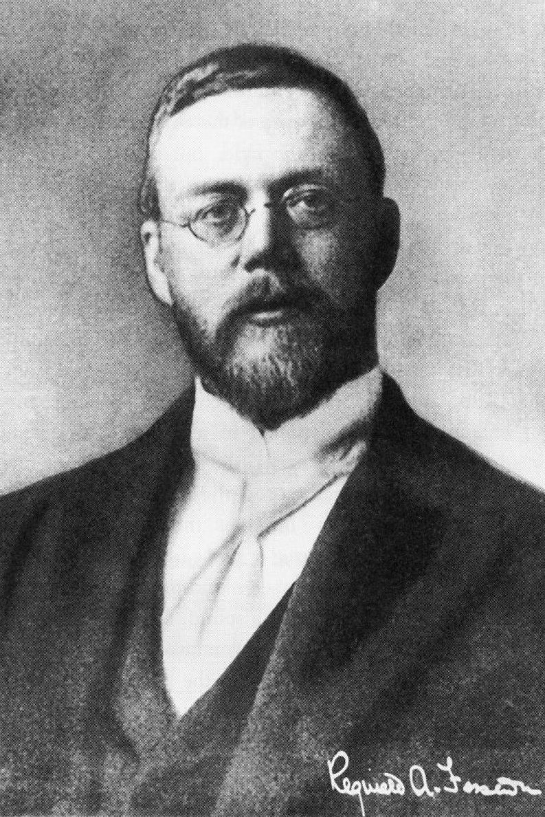 public domain photo